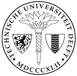 Seal of TU Delft